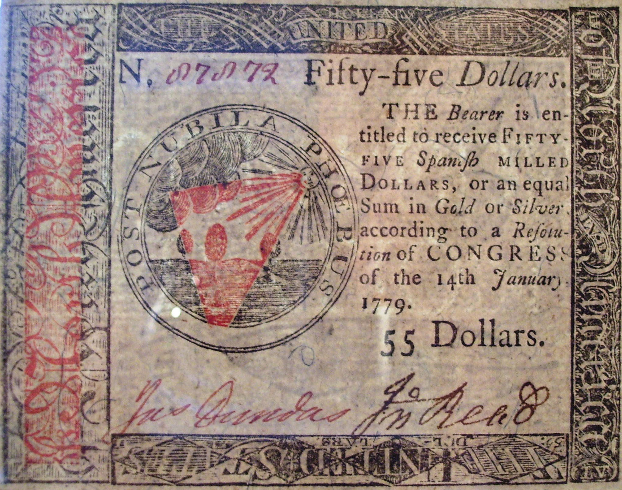 The front (or obverse or face) of a 1779 fifty-five dollar bill of Continental currency. On the other side of the bill is a nature print that was developed by Benjamin Franklin for use on Pennsylvania currency in the decades before the American Revolution. Since no two leaves are alike, it was hoped that the design would aid in detecting counterfeit bills. Franklin's specific method for making these was kept a secret and is unknown, but this form of nature printing was prevalent in the American colonies and the United States from the 1730s through 1779, when Delaware, Maryland, Pennsylvania, and New Jersey issued nature-printed currency. After Franklin retired from printing, his partner David Hall formed the firm of Hall & Sellers, which (after Hall's death) used Franklin's technique on Continental bills like this one. For more info, and From a private collection, exhibited at Glyndor Gallery, Wave Hill, The Bronx, New York.